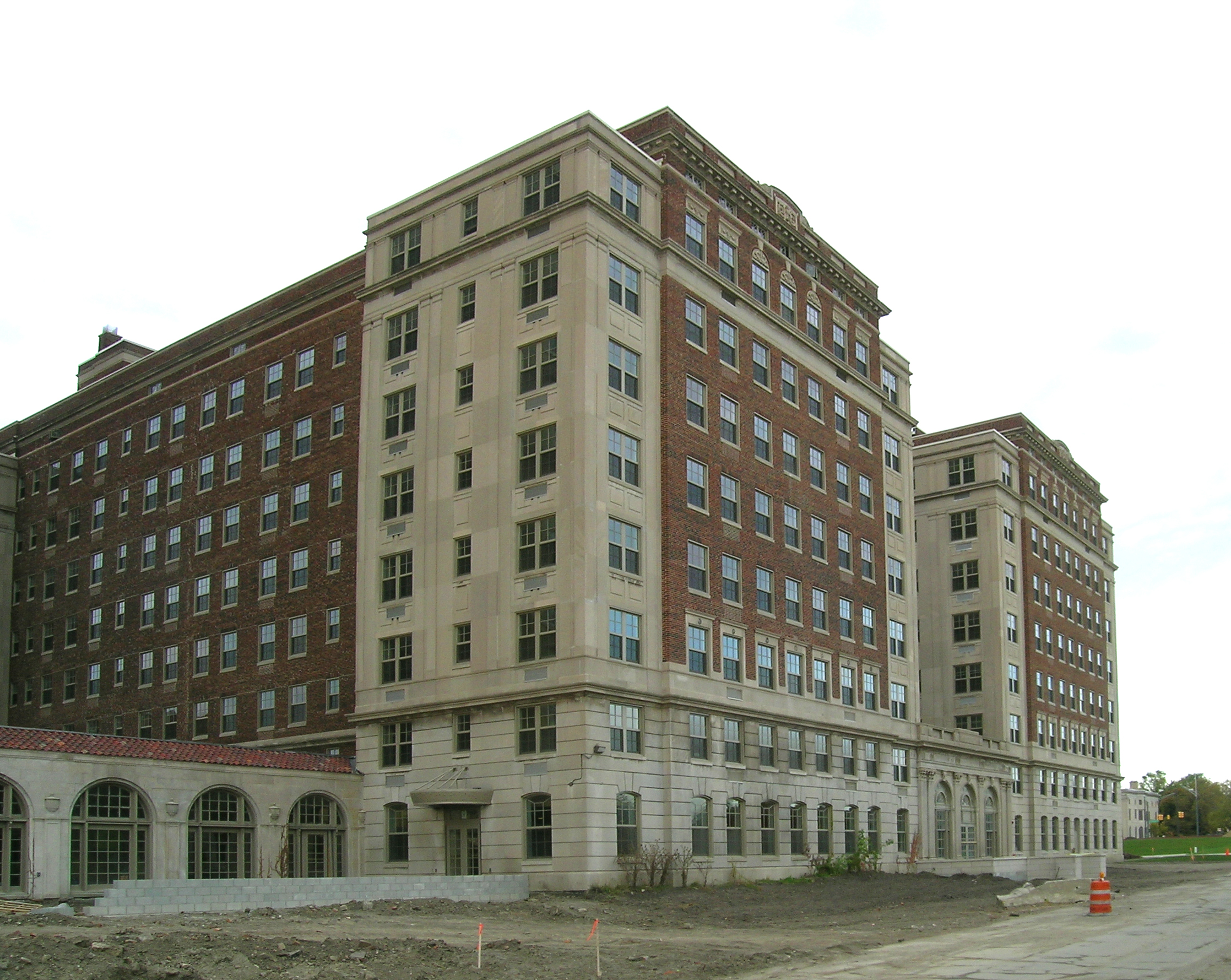 Whittier Hotel Wing Detroit MI